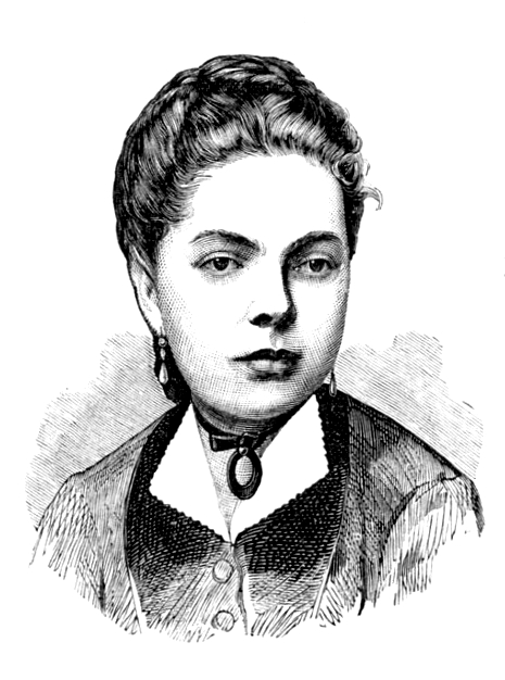 Polish writer for young people, publicist, translator and teacher.